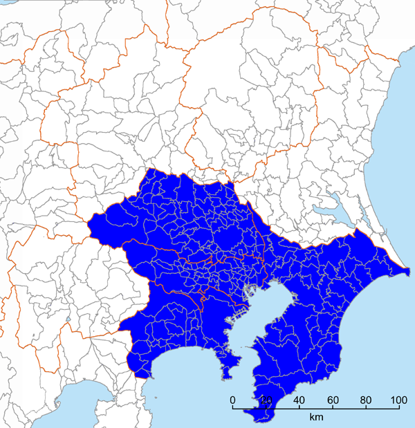 Map of the South Kanto region, one of the various definitions of Tokyo/Kanto.